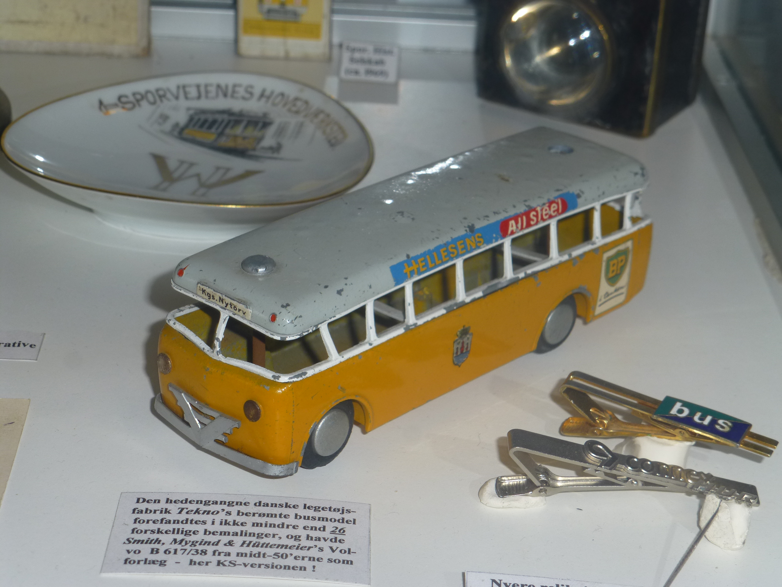 Toy bus from Tekno as bus from Copenhagen at Sporvejsmuseet Skjoldenæsholm in Denmark.